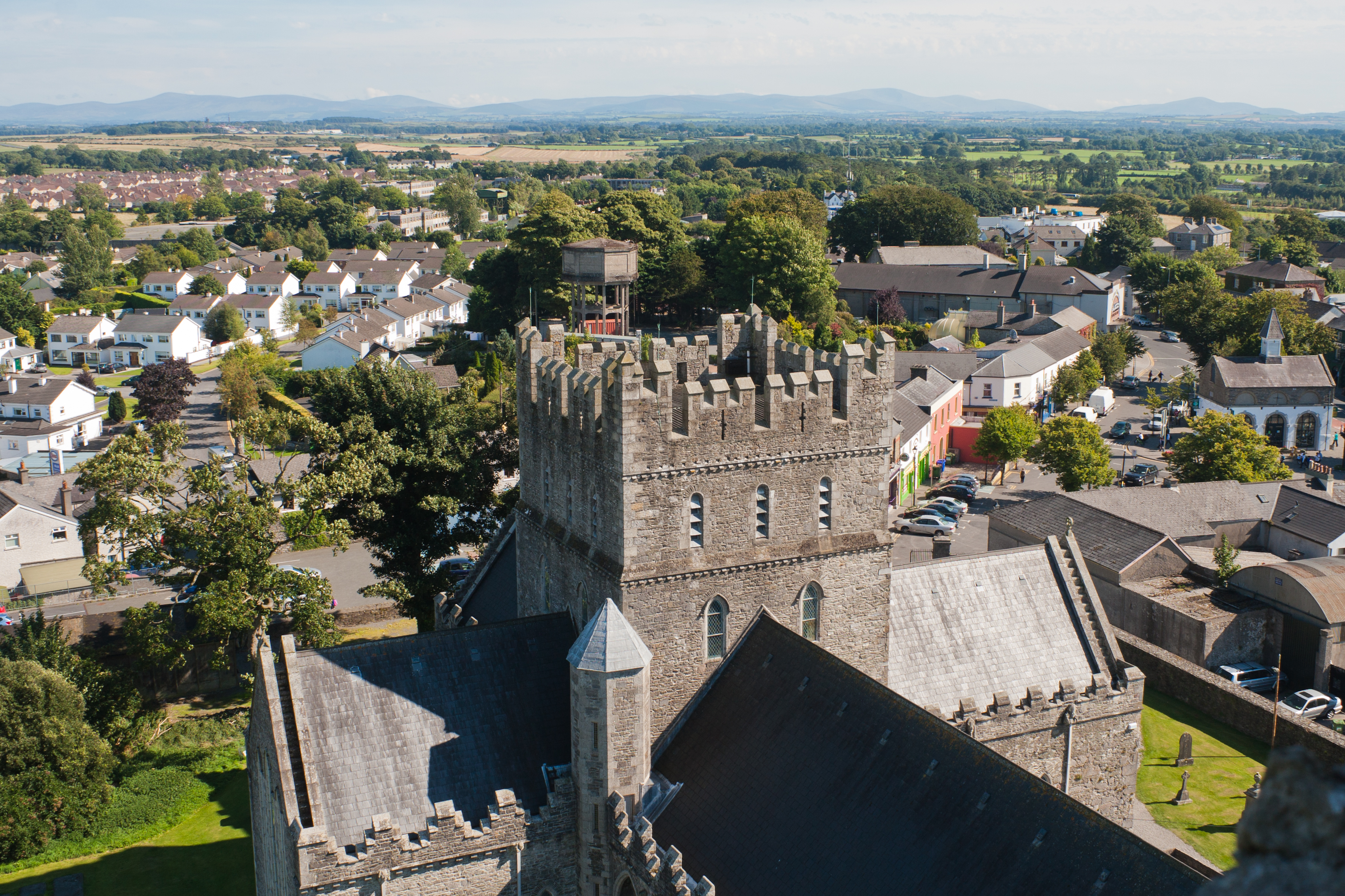 Tower and transepts of the cathedral as seen from the top of the round tower with the Wicklow mountains at the horizon.